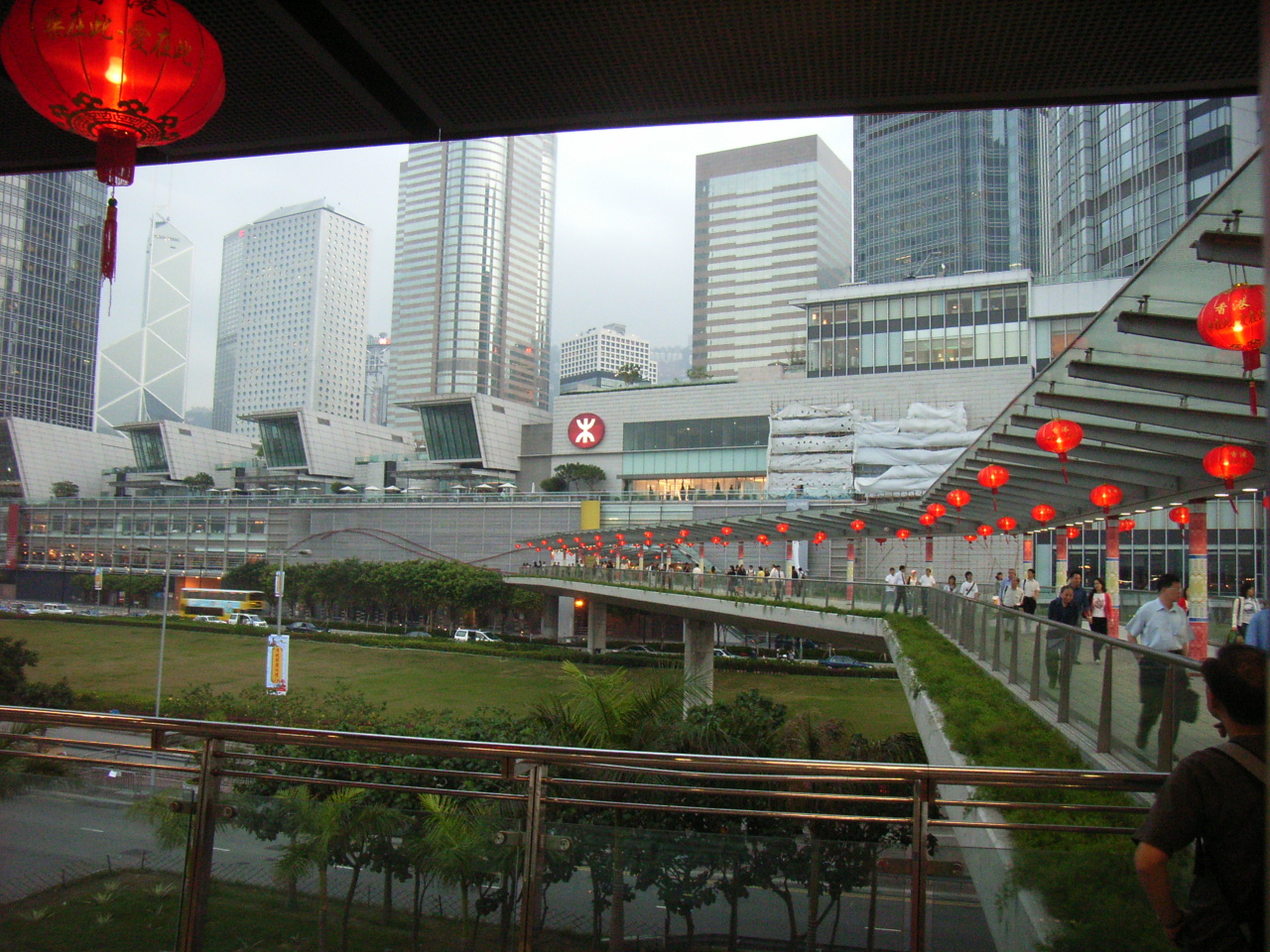 中環廟會, Temple fair at HK Central for the period April-May 2006